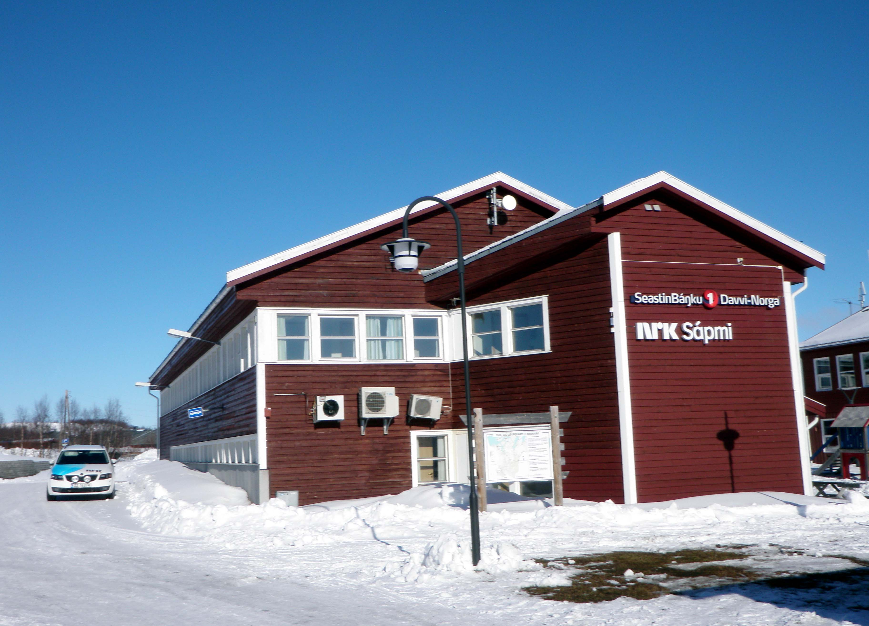 Building housing the local branches of NRK Sápmi and SpareBank 1, in Kautokeino, Finnmark, Norway. NRK Sápmi car parked on the left.